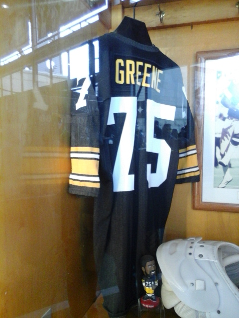 Closeup of Joe Greene's Jersey and bobble head in the Heinz Field Walk of Fame.